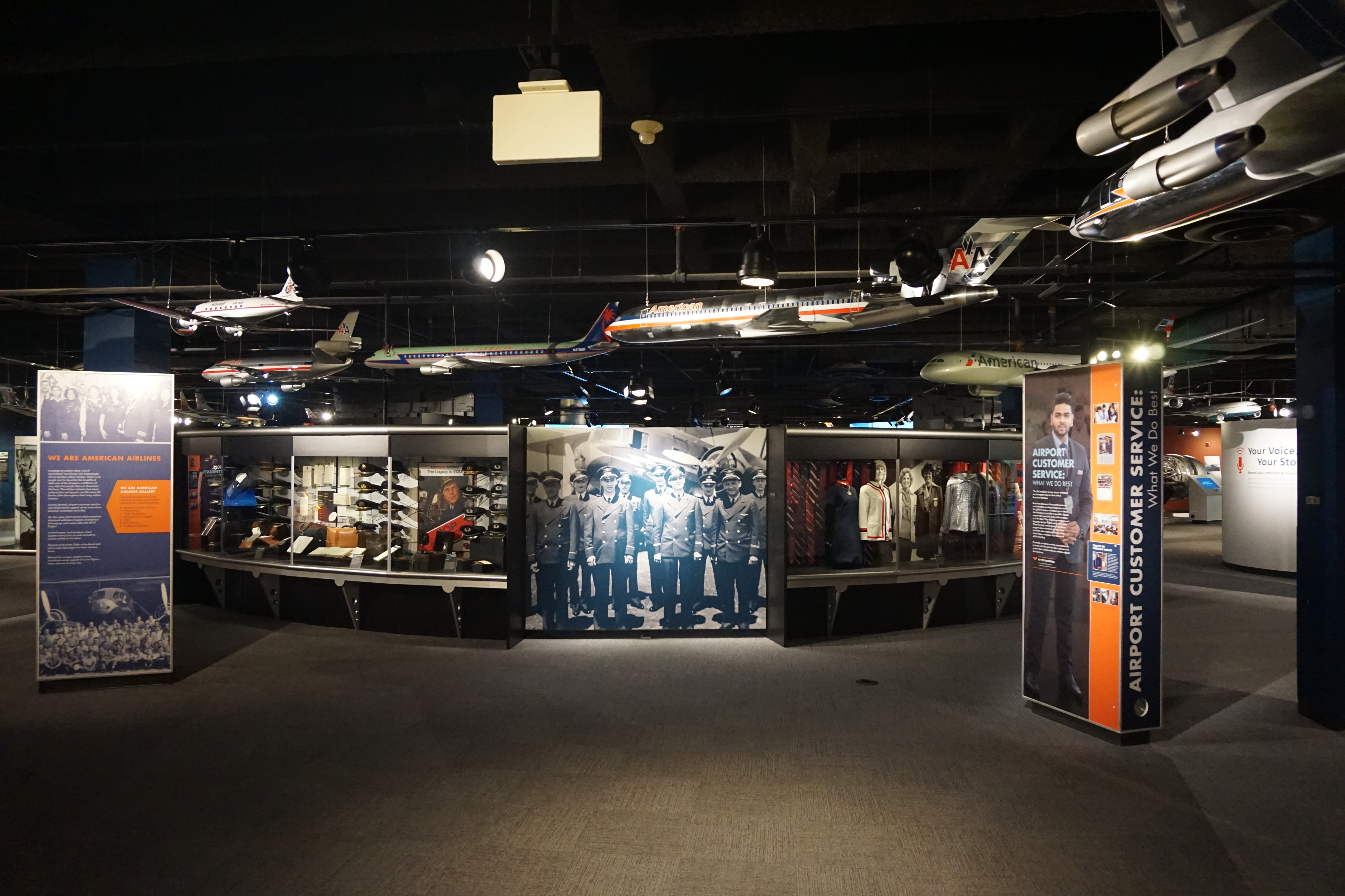 The interior of the American Airlines C.R. Smith Museum in Fort Worth, Texas (United States).